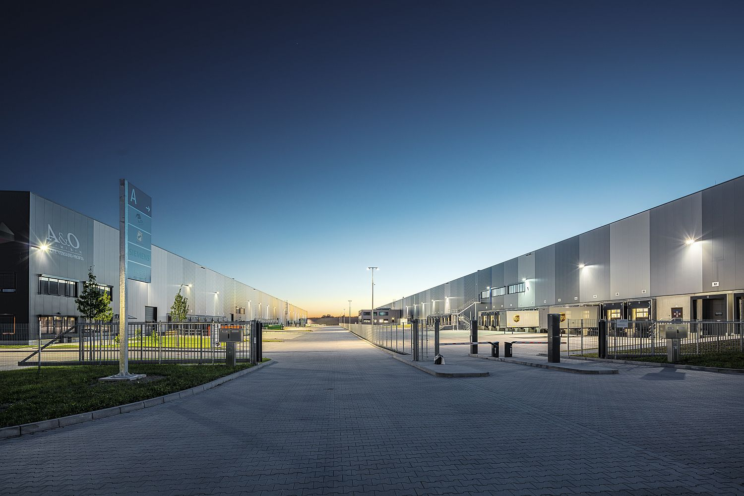 VGP Rodgau industrial park